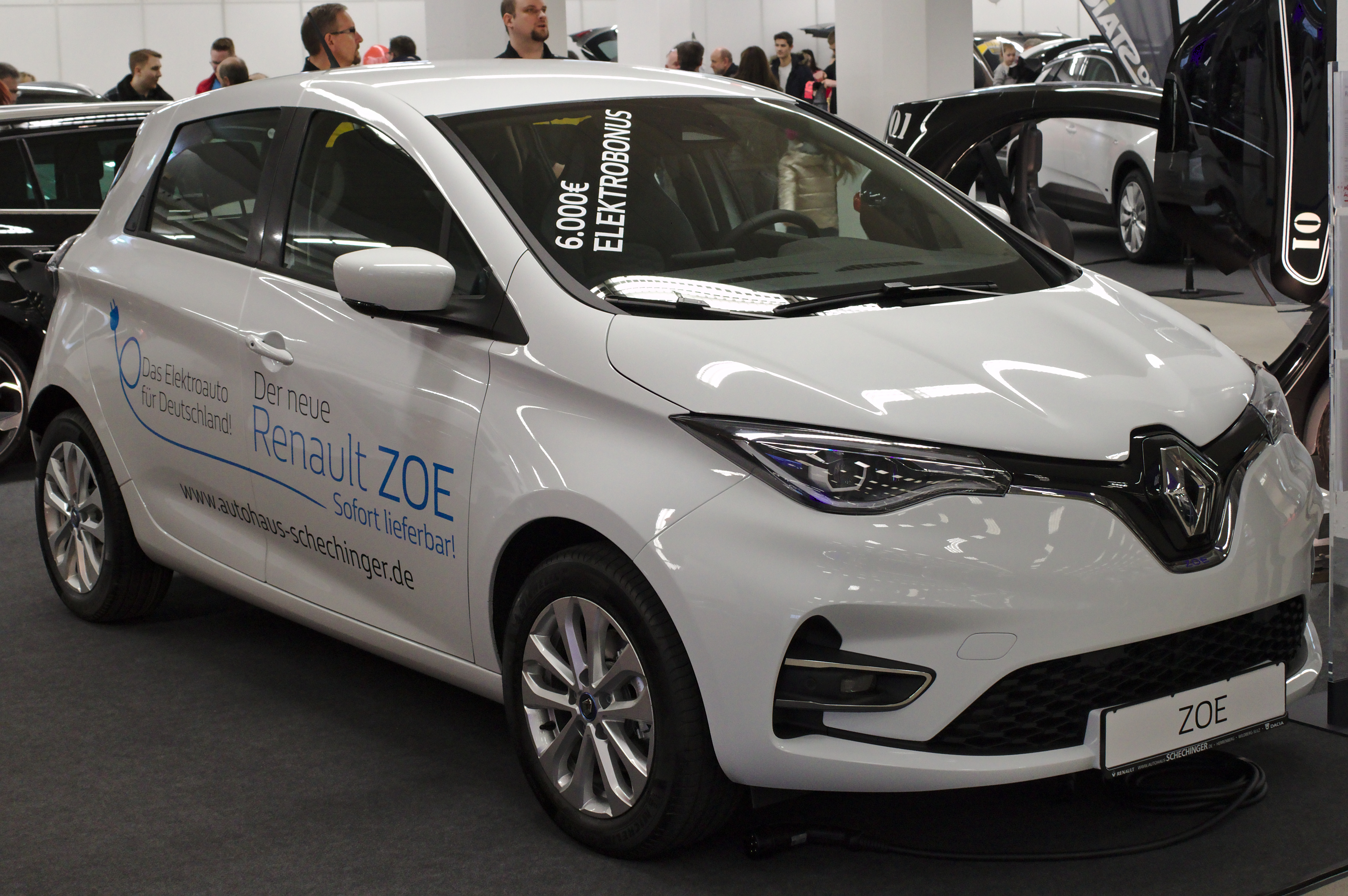 Renault_Zoe_Sindelfingen_2020